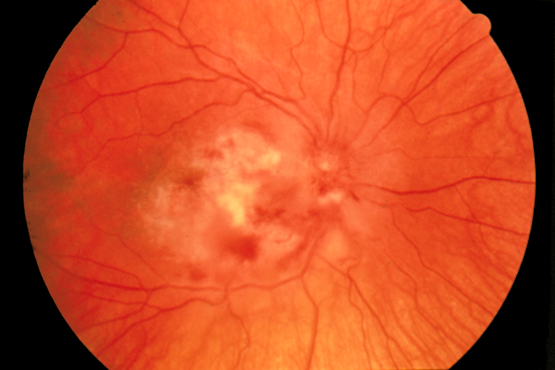 Fundus, photograph-CMV retinitis Description: Fundus photograph-CMV retinitis Credit: National Eye Institute, National Institutes of Health Ref#: EDA07